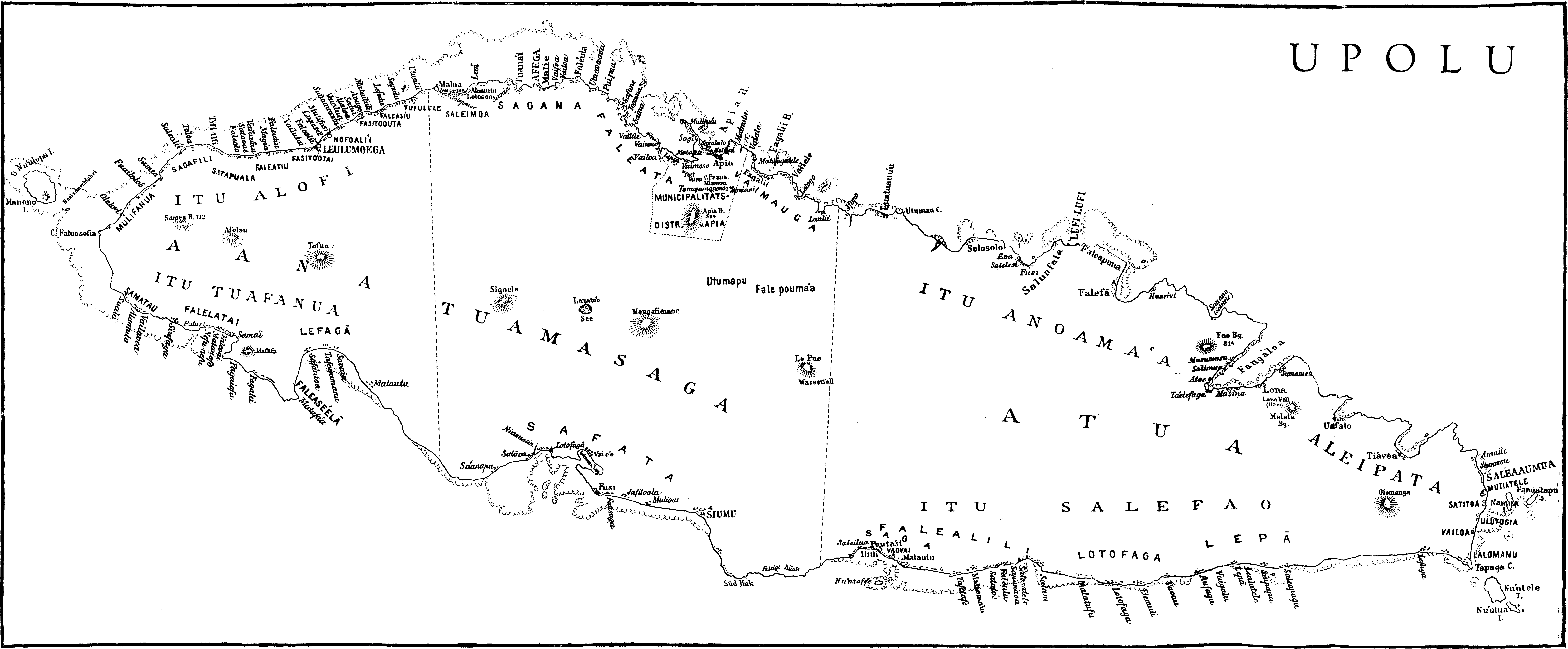 Maps from the plate section of book of Robert Wood Williamson: The Social and Political Systems of Central Polynesia, 1924, Vol. 1, second map, facing page 42